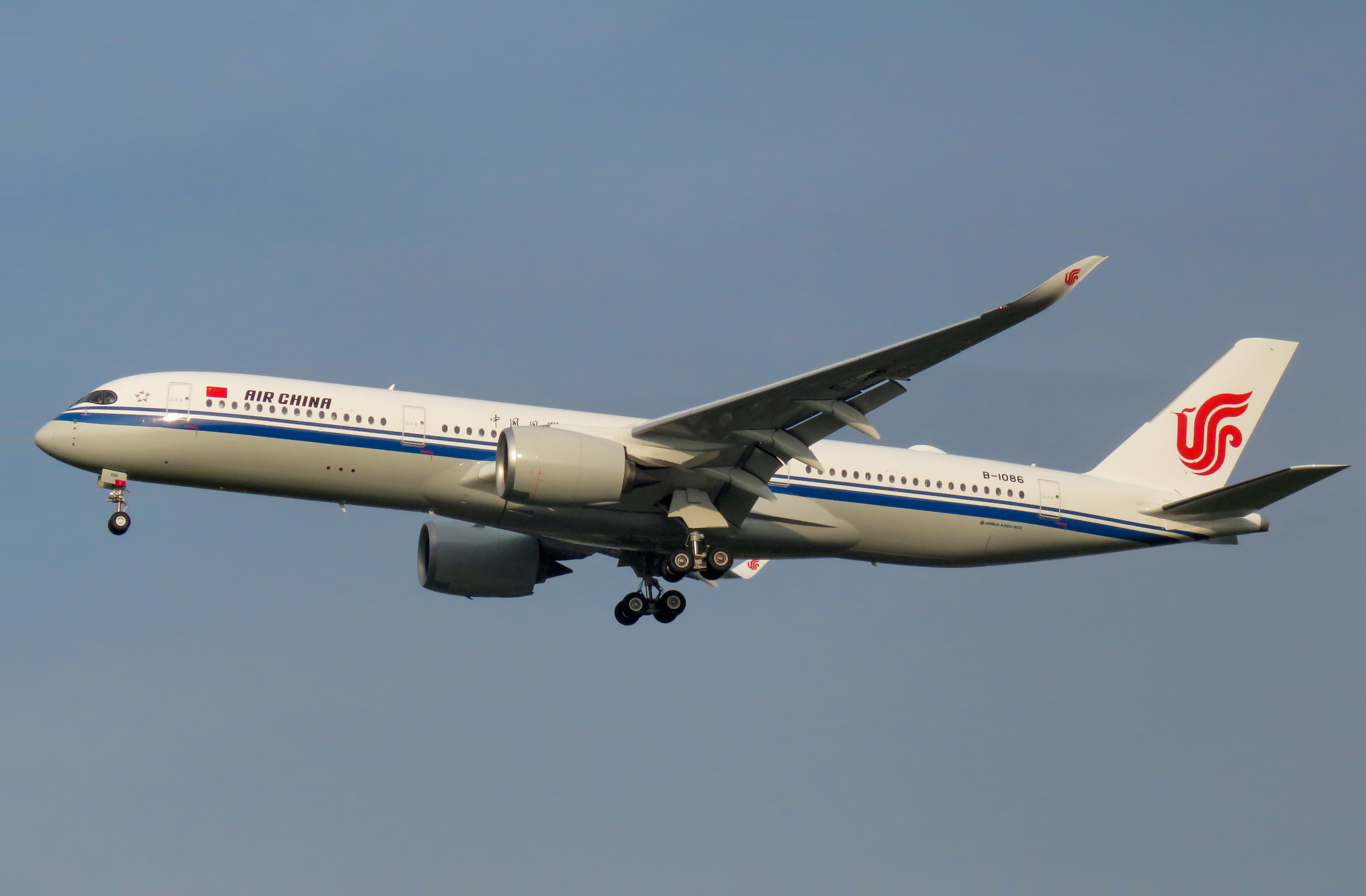 Air China 1558 from Shanghai Hongqiao. ZBAA welcomes this "débutante" A350 with blue sky and appropriate sunlight!